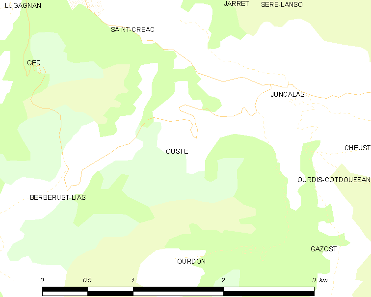 Map of French municipality